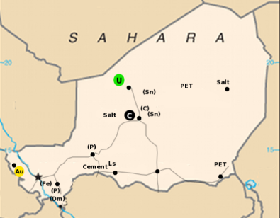 Known Mineral resources of Niger, data derived from USGS map at Map background from CIA Map on Commons Key Colored circles represent current mining centers. Unexploited but proved resources in parentheses. Gold Au Coal C Diamond Dm Iron ore Fe Limestone Ls Phosphate P Petroleum, crude Pet Tin Sn